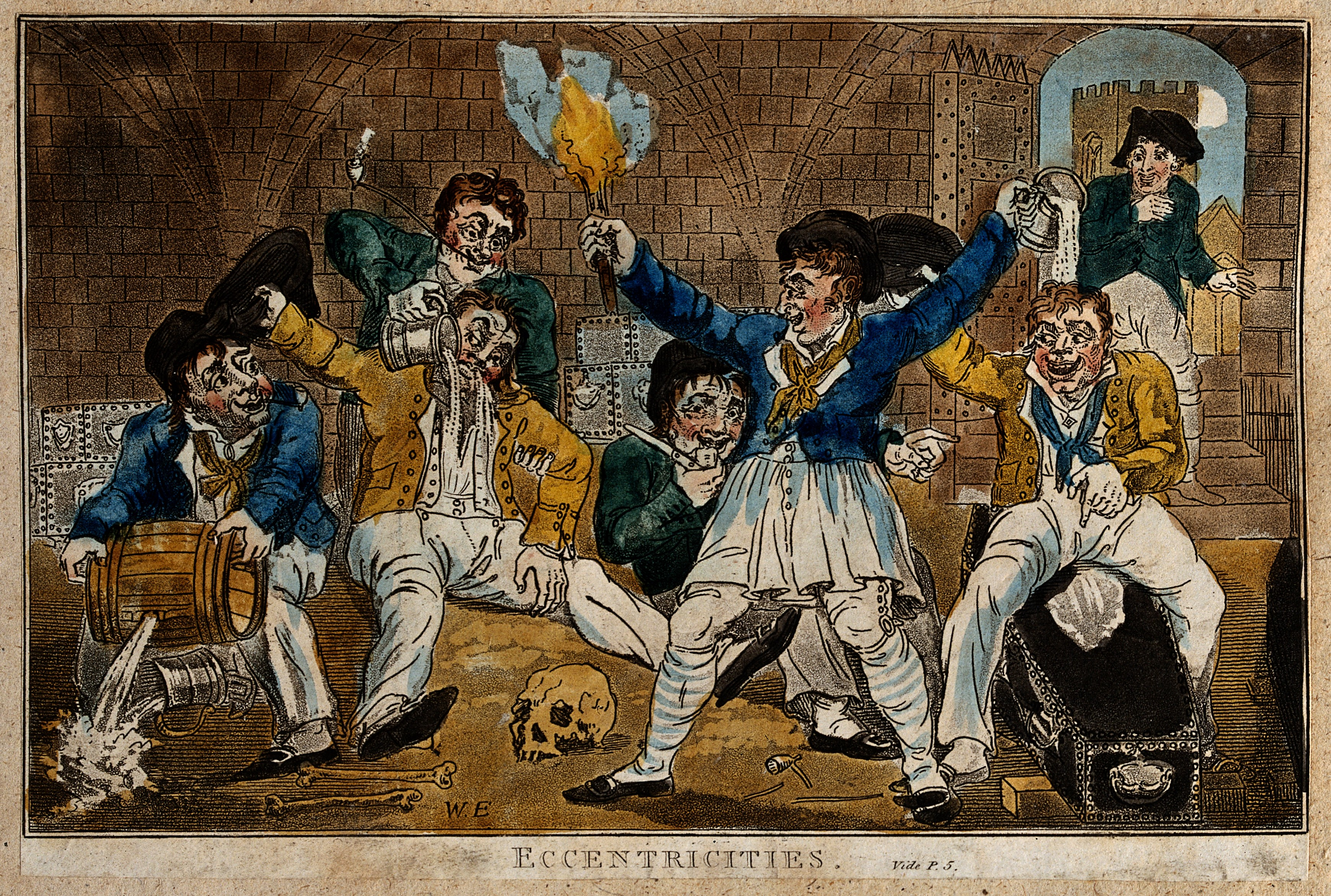 Sailors drinking in a crypt. Coloured etching by W. Elmes. Iconographic Collections Keywords: William Elmes